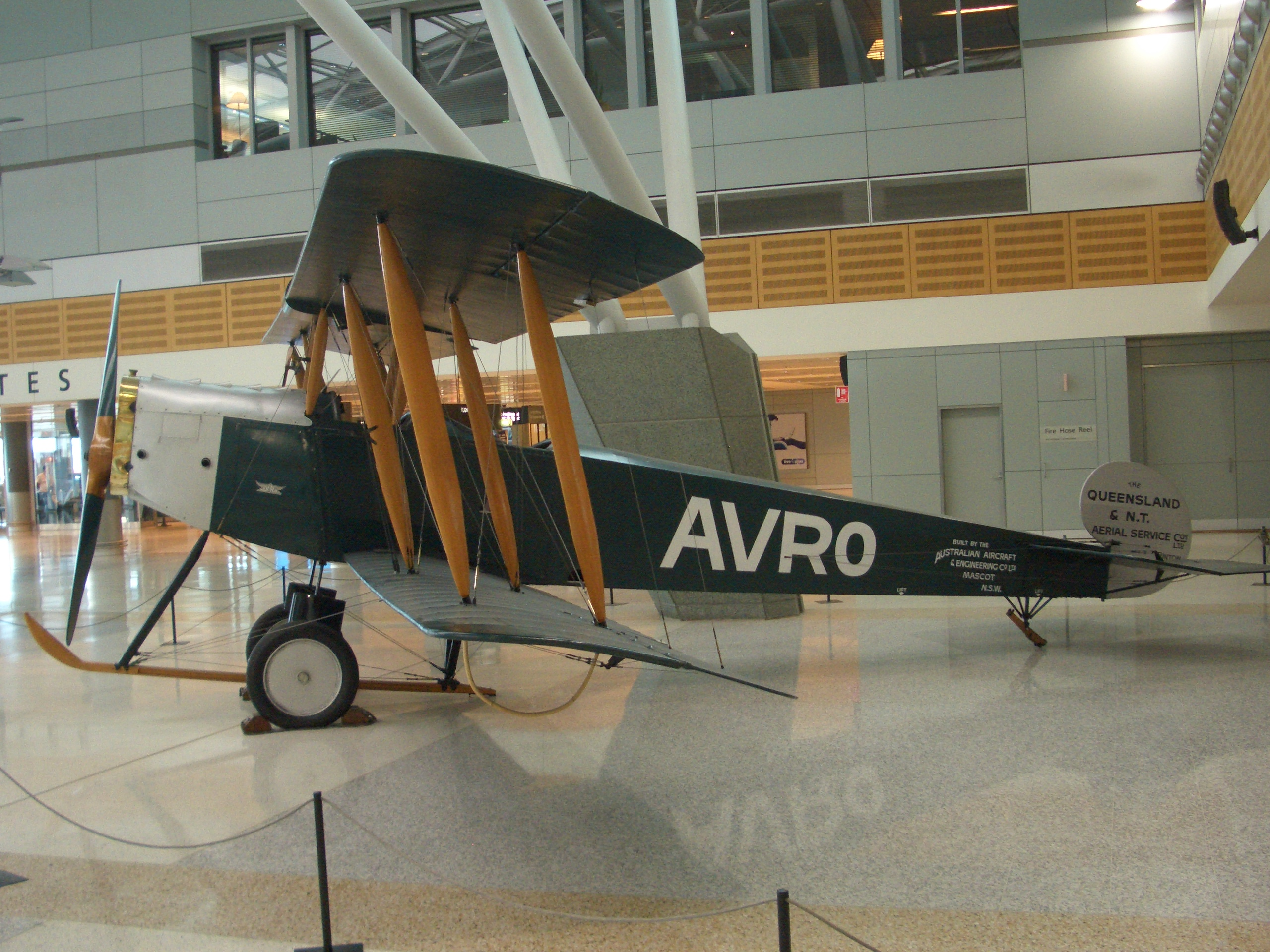 Qantas Replica at Kingsford Smith International Airport (YSSY), Mascot.